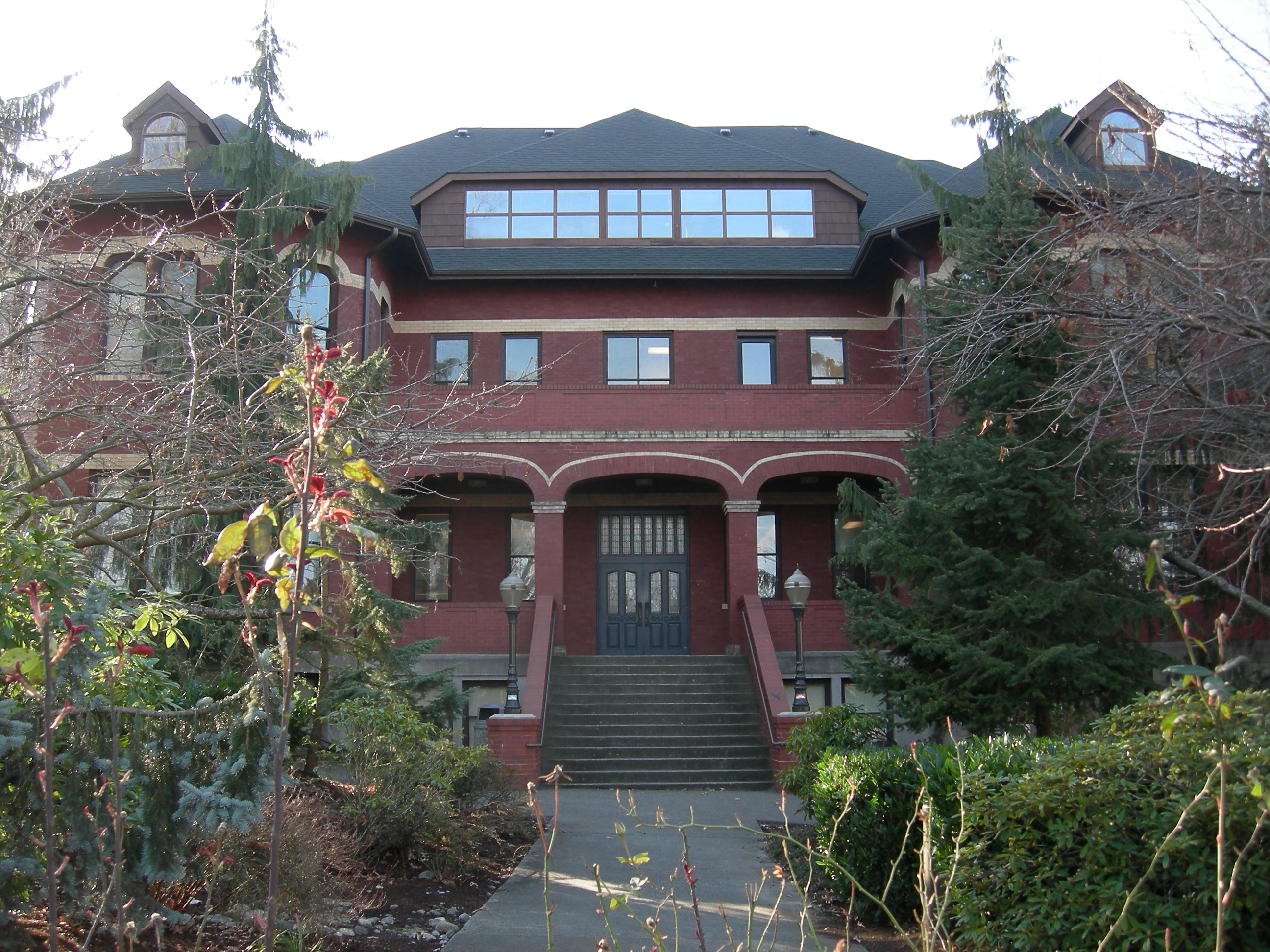 Peterson Hall (former administration building) Seattle Pacific University, Seattle, Washington.